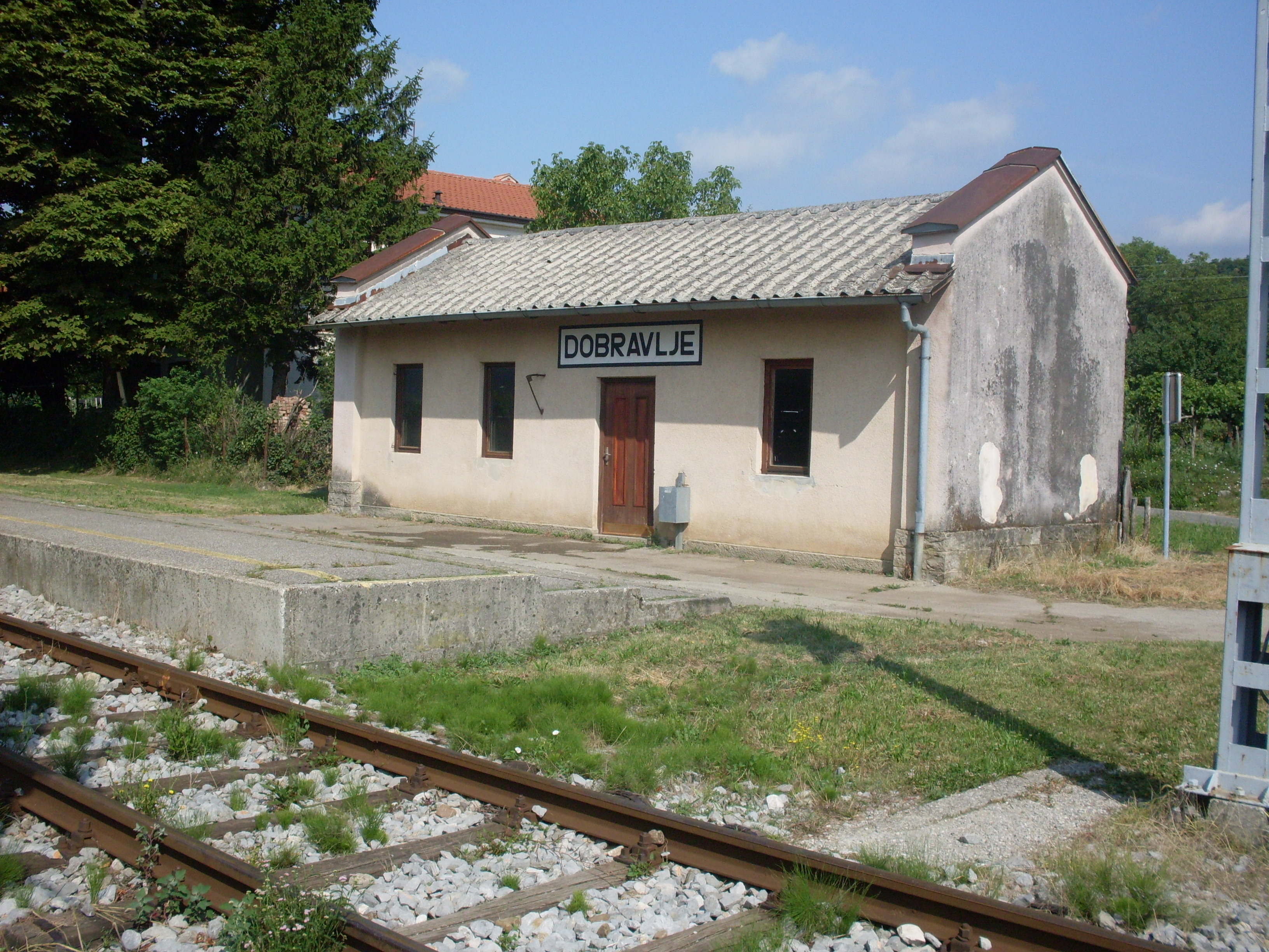 Railway halt in Dobravlje